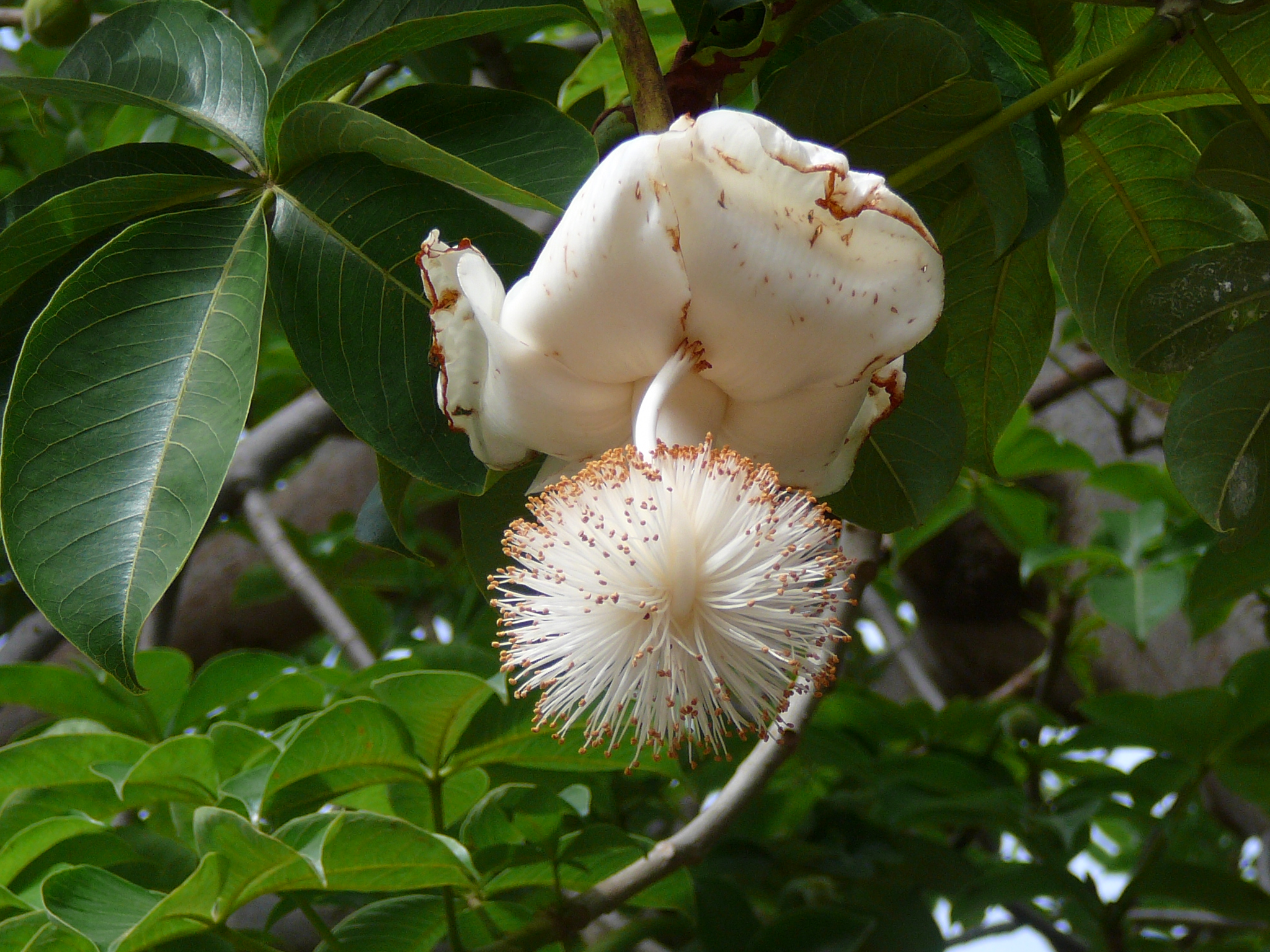 Adansonia digitata